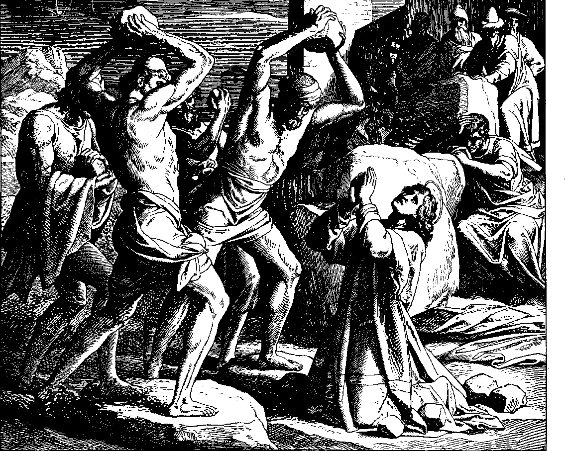 Woodcut for "Die Bibel in Bildern", 1860. The Stoning of Stephen